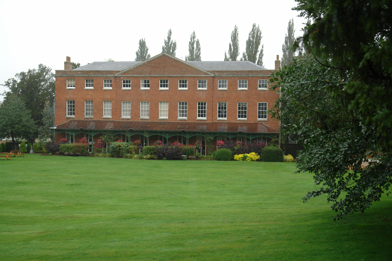 Abington Hall on Granta Park near Cambridge UK was one of the first buildings of The Welding Institute (TWI Ltd). It contains now a licenced bar of Mary's Ltd, two meetings room and some offices of Woodhead Publishing Ltd.